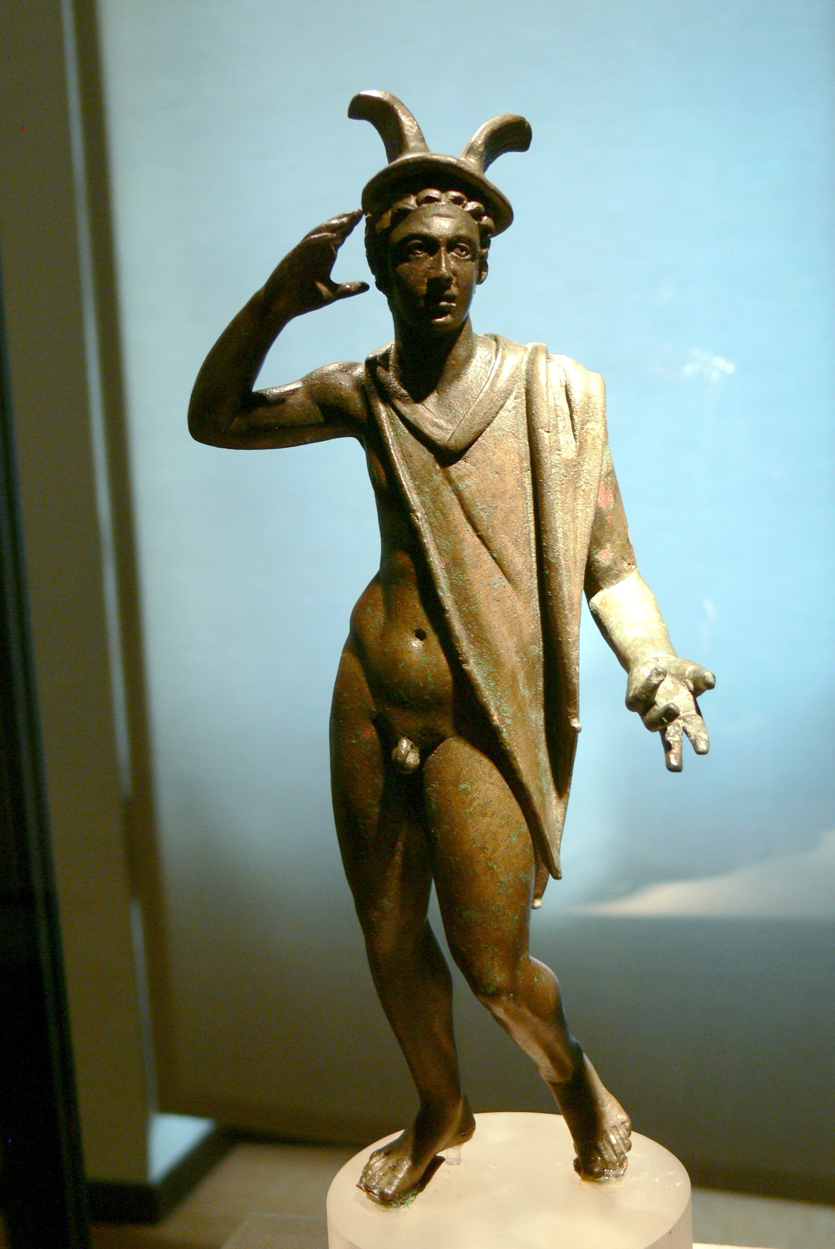 Weißenburg (Bavaria). Roman Museum: Bronze statue of Mercurius ( 2nd/3rd century AD ).